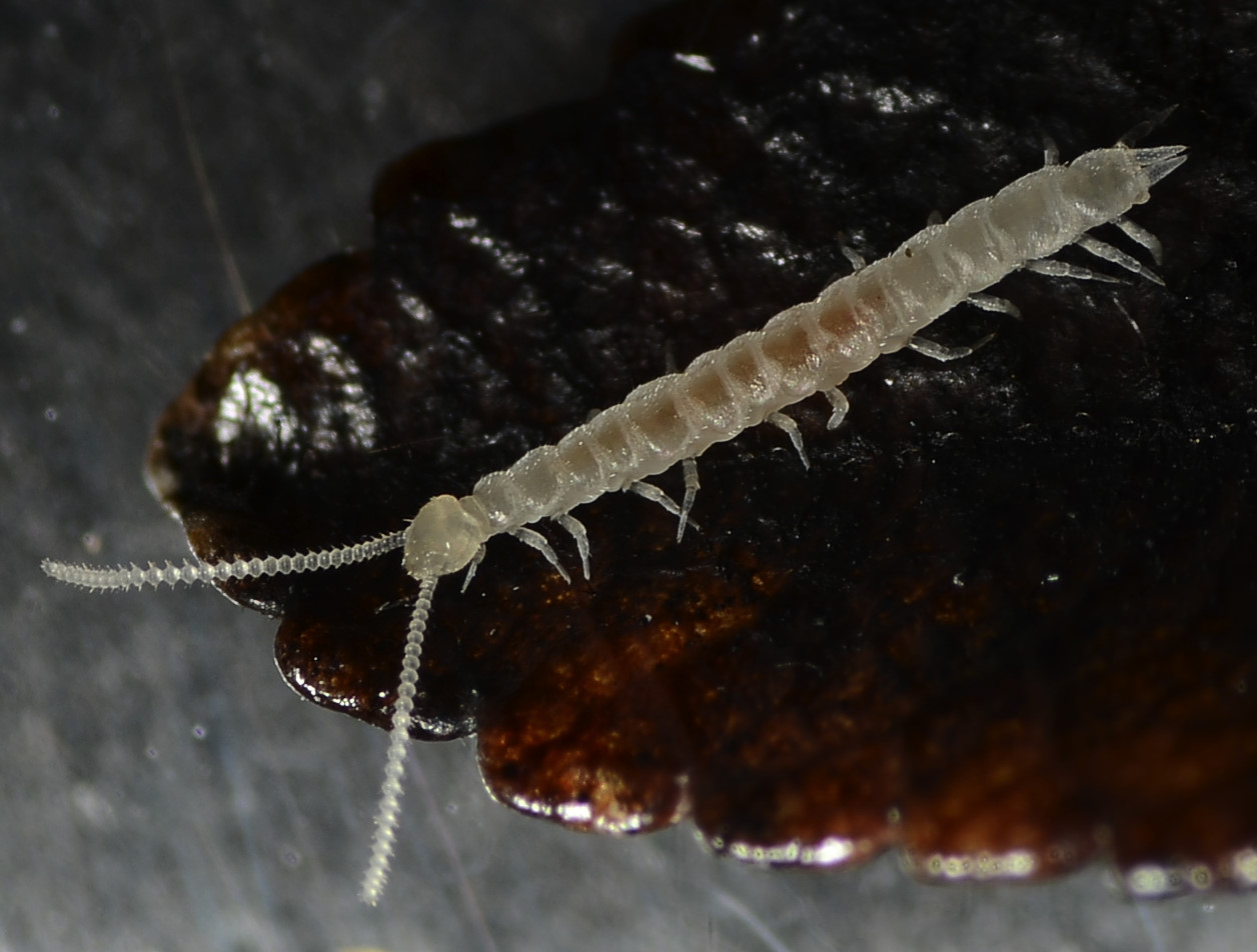 Symphyla